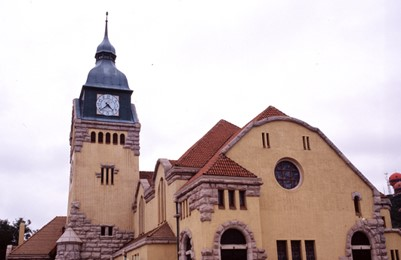 Jiangsu Street Church in Qingdao, Shandong Source: user:Yusky Picture uploaded by Yusky in 9 June, 2006.